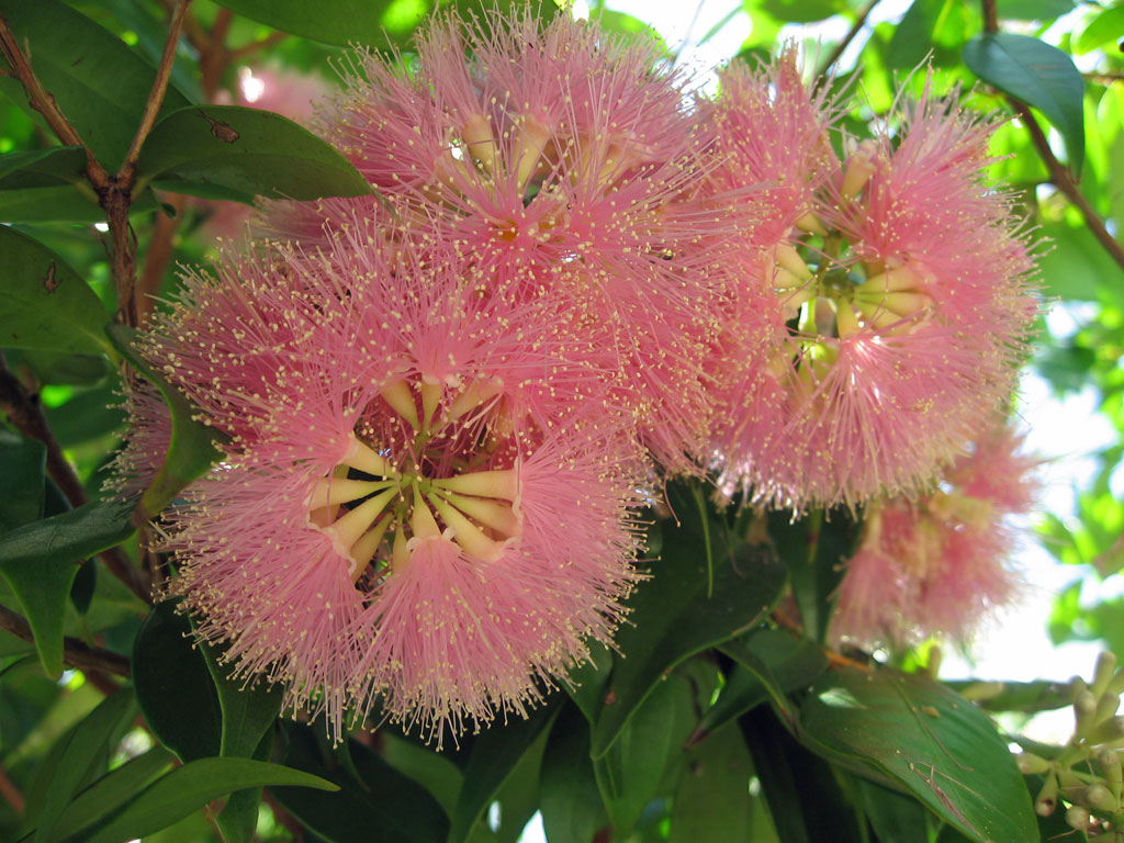 Syzygium luehmanniiFlowering Lilly Pilly on the road outside my house in Sydney